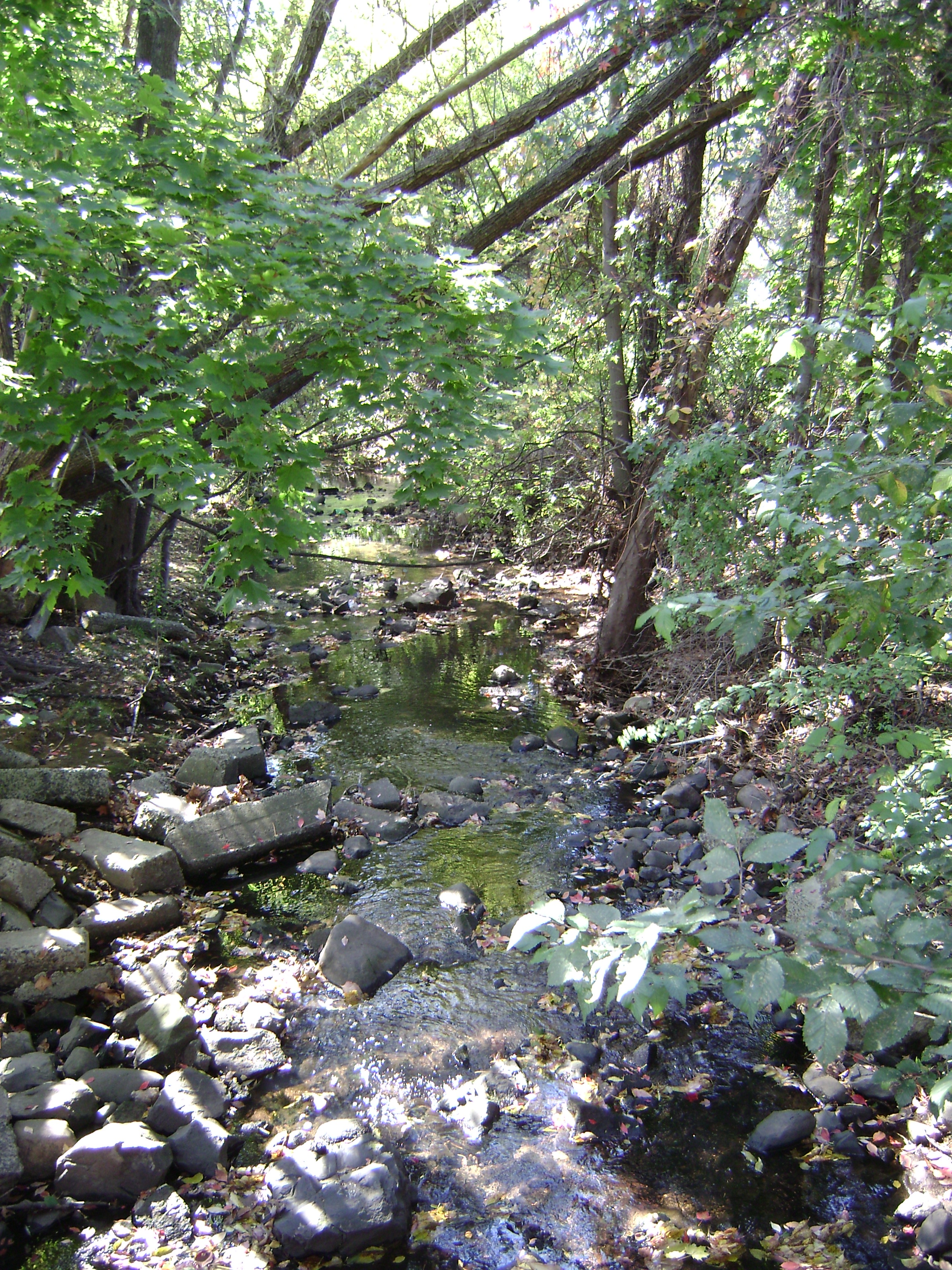 Photo of Little Diamond Brook facing west from 11th Street in Fair Lawn, New Jersey.